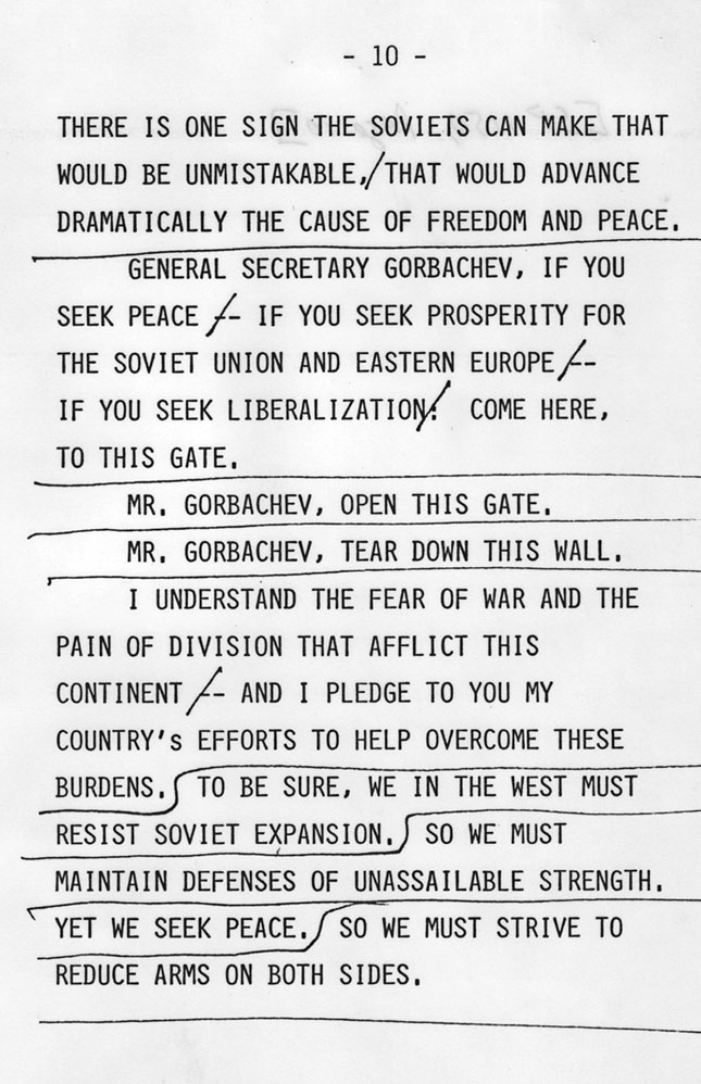 A page from the speaking copy that Reagan used in Berlin, showing the "tear down this wall" line.